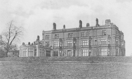 Byrkley Lodge in Rangemore, Staffordshire, was the home of Hamar Bass, an heir to the Bass Brewing fortune. Byrkley Lodge was demolished in 1952.